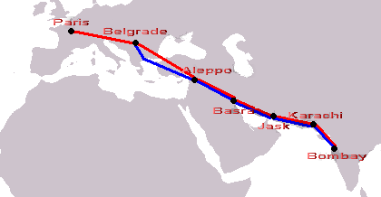 After a short preparation, Sondermajer and Bajdak flew from Paris on 20 April 1927. Finally, after covering 14,800 kilometers, 14 stages and 11 days of travel, on 2 May 1927 landed in Belgrade.